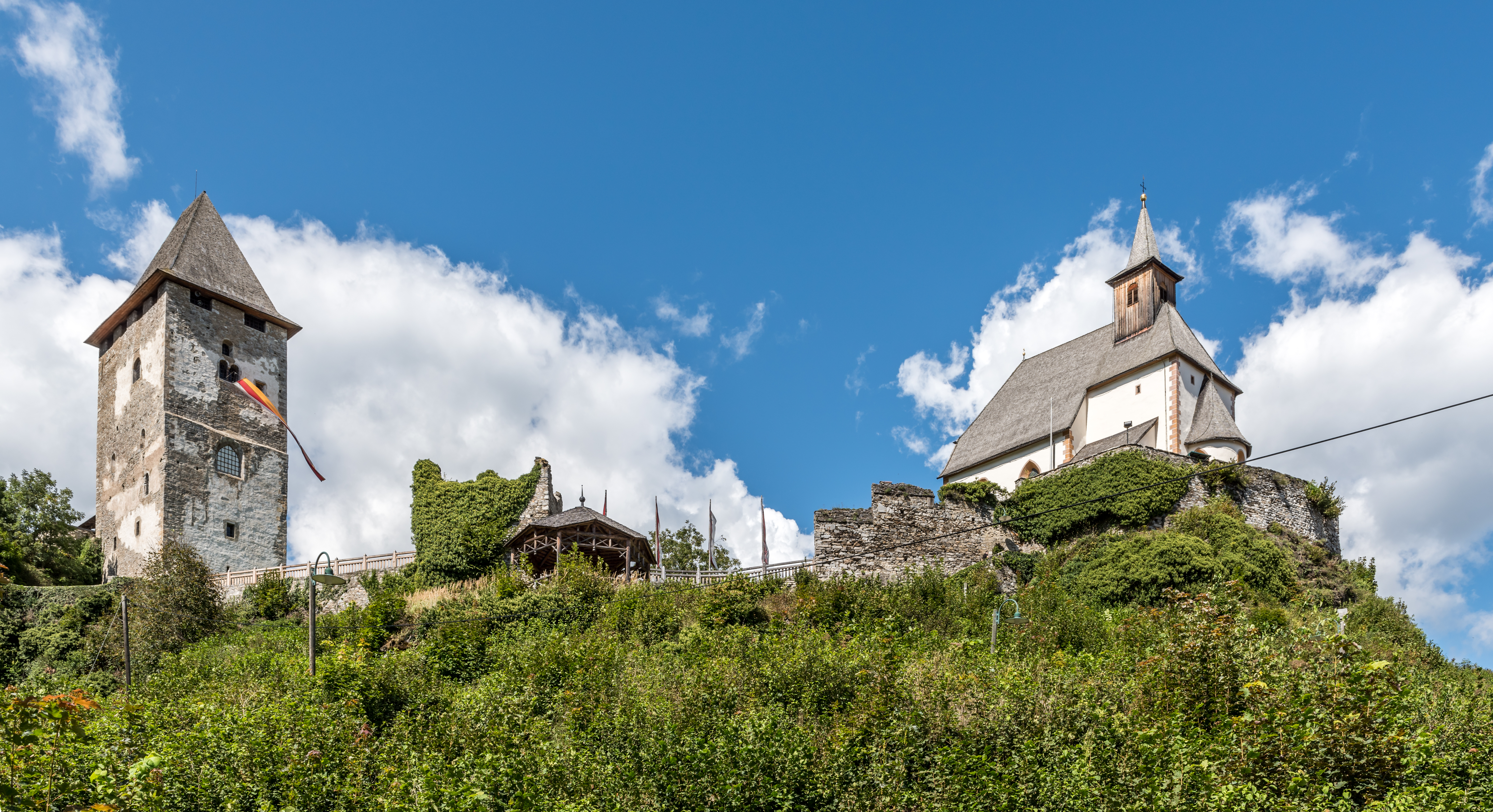 Keep and Peter´s church on Petersberg, municipality Friesach, district Sankt Veit, Carinthia, Austria, EU